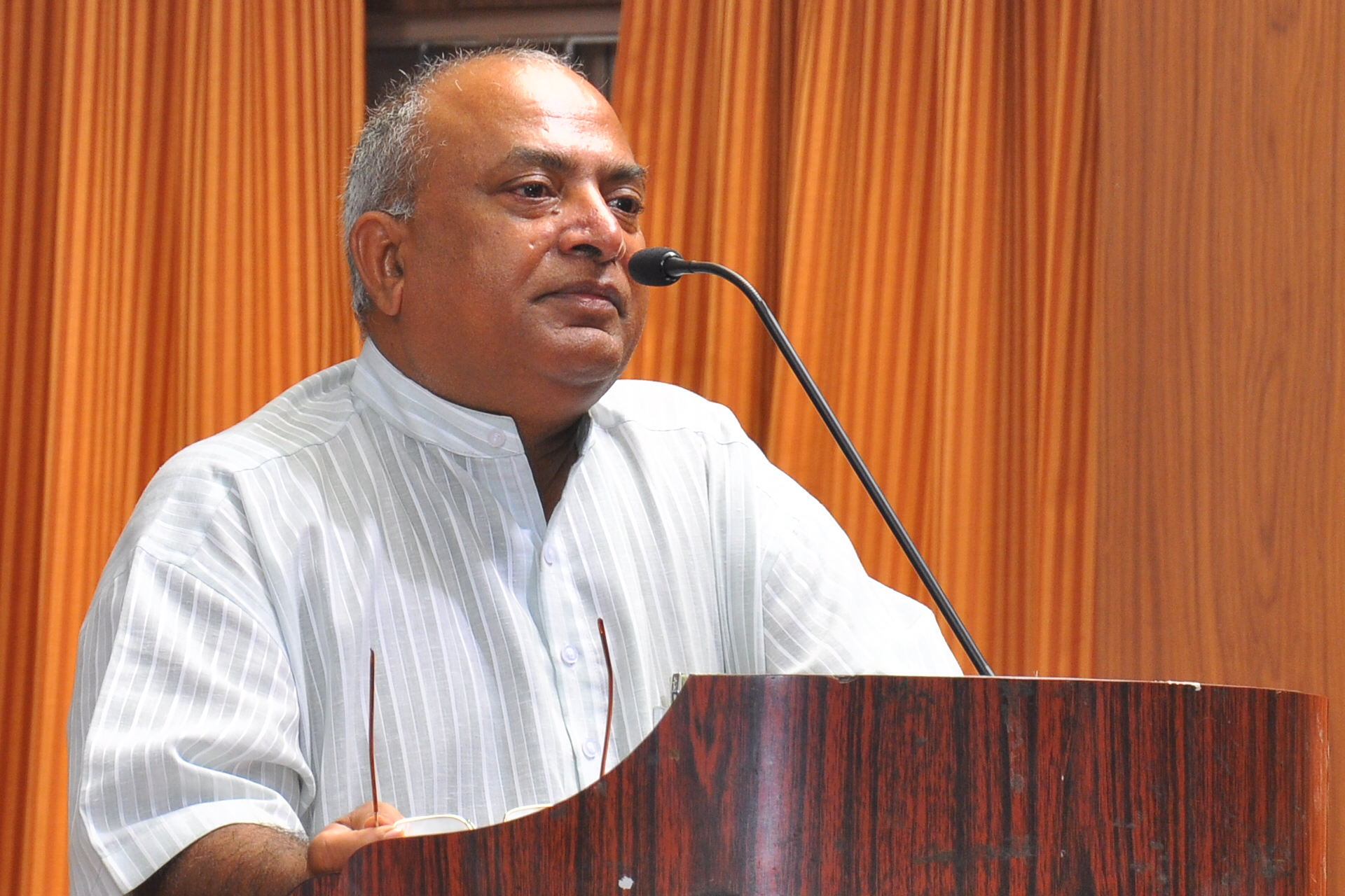 mannam venkata rayudu, founder of manasu foundation, Bengaluru